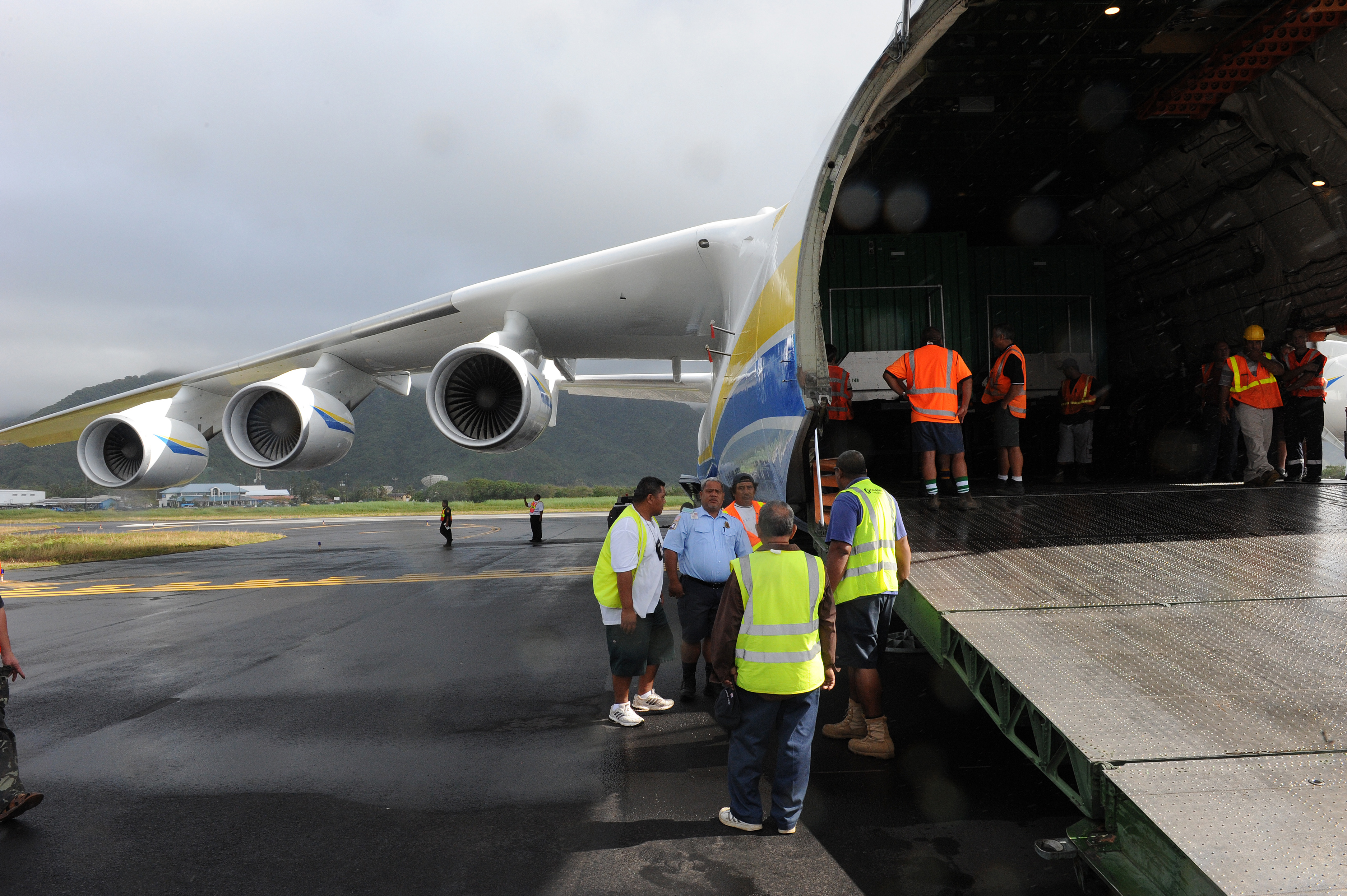 Pago Pago, AS, October 13, 2009 -- Logistics workers in American Samoa strategize how they will unload generators from a Antonov AN-225 cargo plane. The cargo plane is the largest fixed wing aircraft in the world and carried generators contracted by the Federal Emergency Management Agency to assist the island with electrical power restoration. David Gonzalez/FEMA